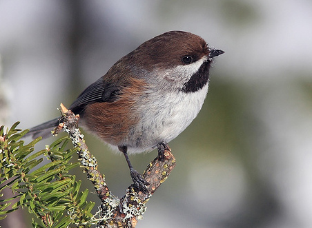 Boreal chickadee